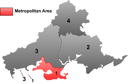 Map of Shanwei in Guangdong province.